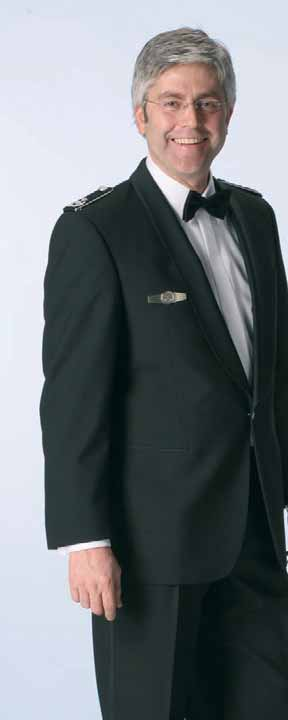 Mess dress of the German Armed Forces (Bundeswehr) (Army) standard format for men